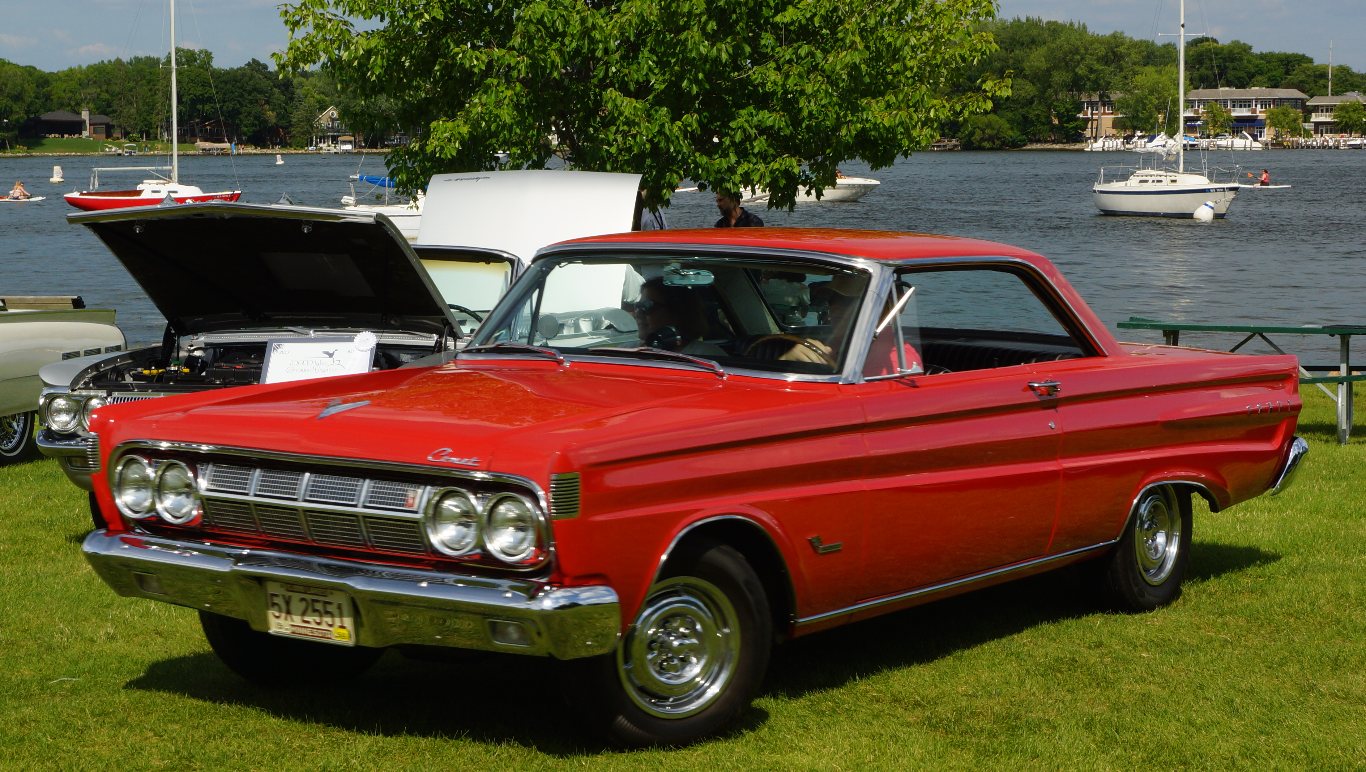 10,000 Lakes Concours d'Elegance Excelsior Commons Excelsior, Minnesota July 30, 2017 ***** Pictures of previous years 10,000 Lakes Concours d'Elegance Click here for more car pictures at my Flickr site. Or here for my Car Crazy Tumblr site. Or on Twitter @DVS1mn.